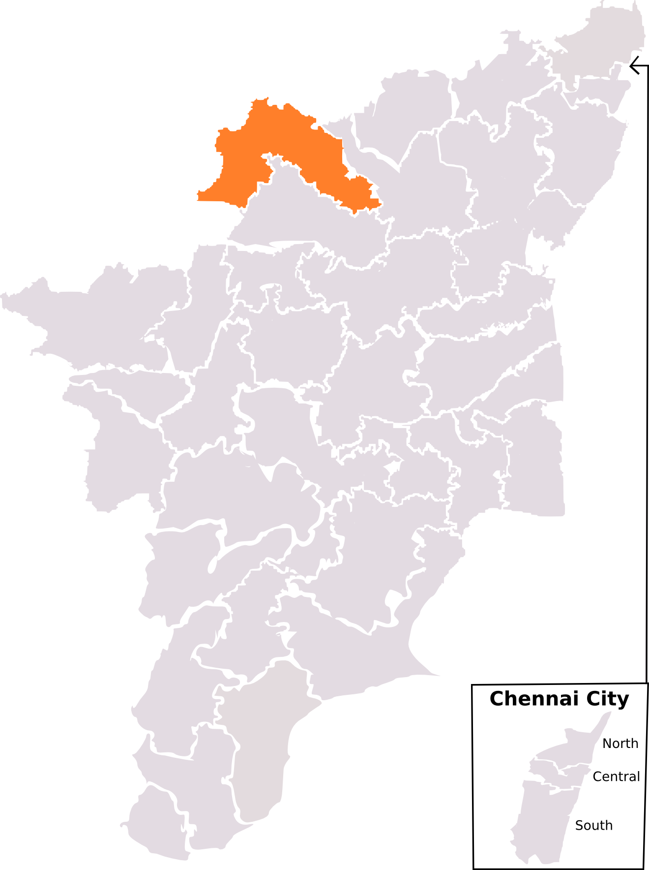 Lok Sabha Election map labeling each constituency for individual pages for Tamil Nadu after delimitation starting 2009 election. Map is based on ECI drawn map from